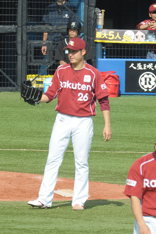 Norihito Kaneto, pitcher of the Tohoku Rakuten Golden Eagles, at Chiba Marine Stadium